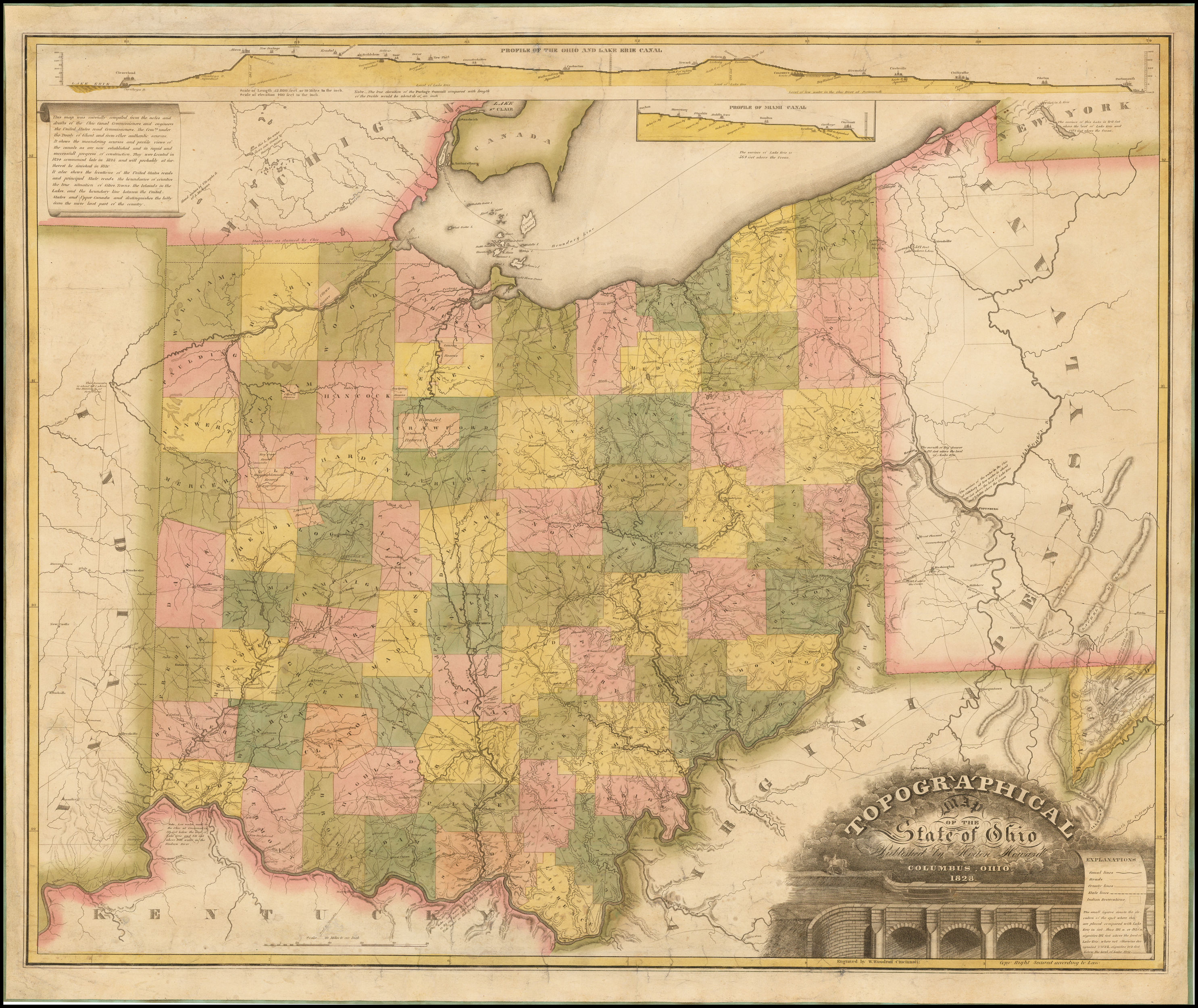 Topographical map of Ohio by Alfred Kelley of the Ohio Canal Commission. Map first made in 1826, and published in 1828 by Horton Howard, Columbus, Ohio.